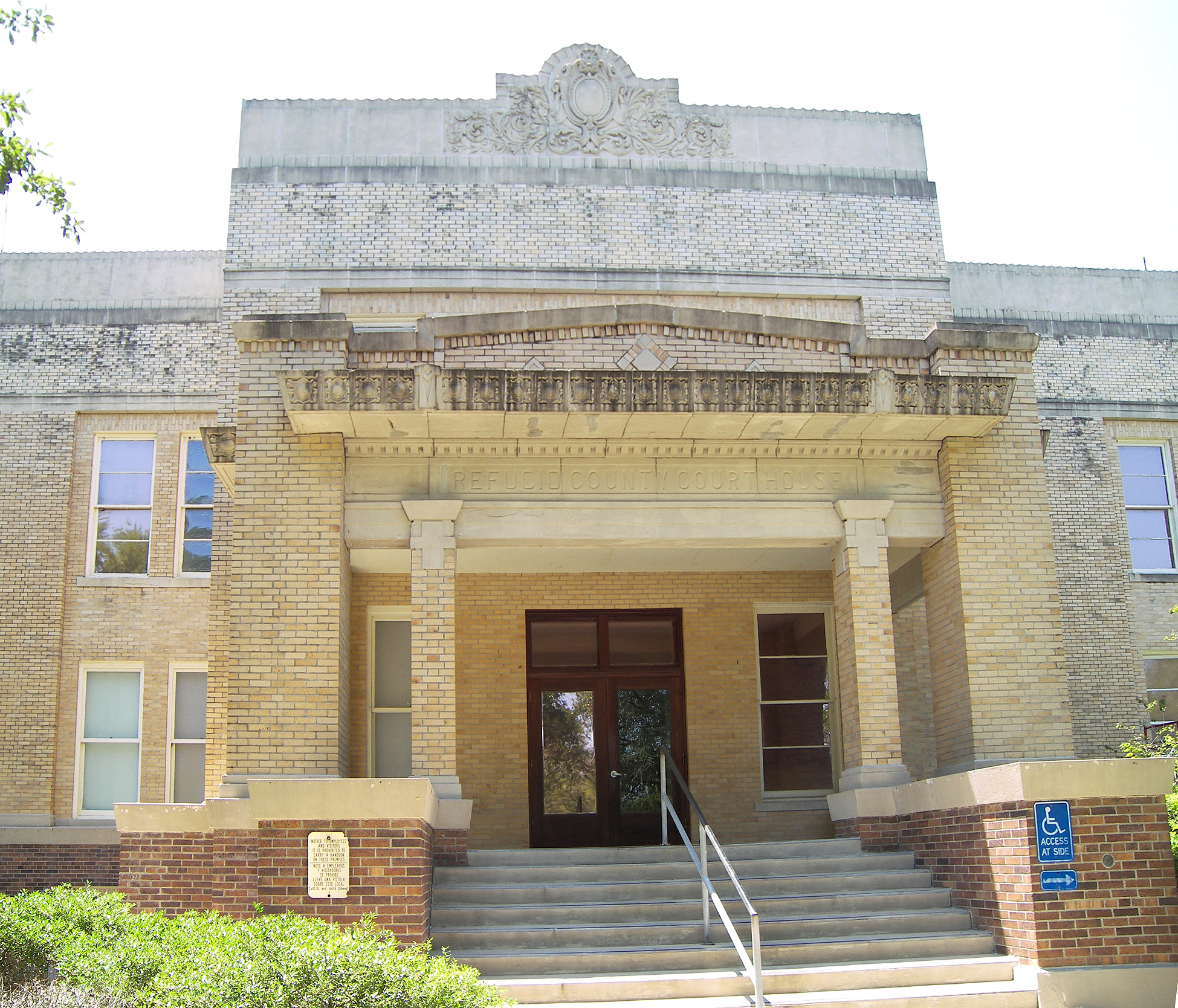 The Refugio County, Texas courthouse located in Refugio, Texas, United States. The courthouse, designed by Atlee B. Ayres, was listed on the National Register of Historic Places on August 22, 2002